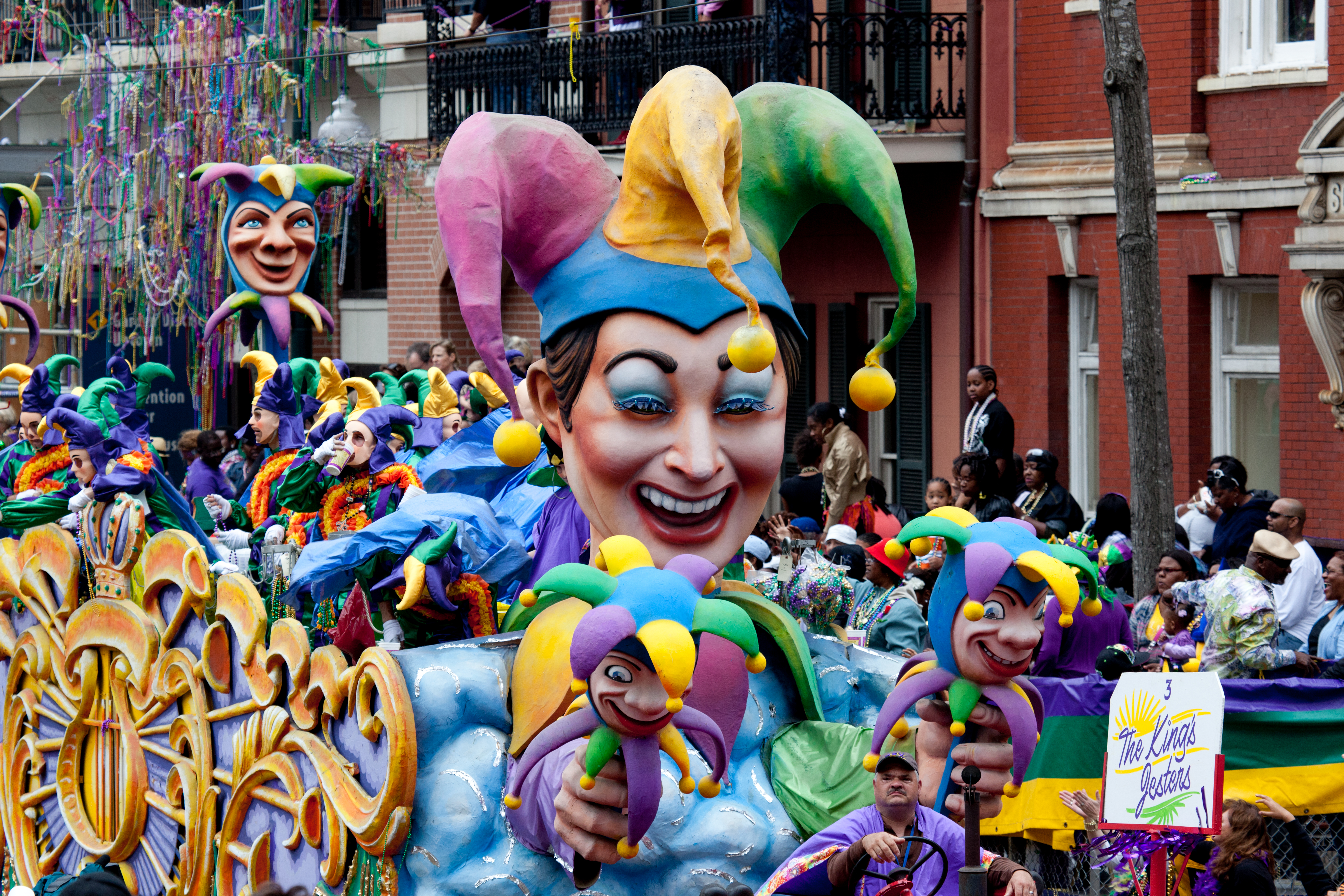 Mardi Gras Parade, New Orleans, Louisiana, 2011 March 8. 1 photograph : digital, TIFF file, color. Mardi Gras is organized by Carnival krewes. Krewe float riders toss throws to the crowds; the most common are strings of plastic colorful beads, doubloons, decorated plastic throw cups and small inexpensive toys. Credit line: Carol M. Highsmith's America, Library of Congress, Prints and Photographs Division. Repository: Library of Congress, Prints and Photographs Division, Washington, D.C. 20540 USA, More information about the Highsmith Collection is available at Call Number: LC-DIG-highsm- 11700